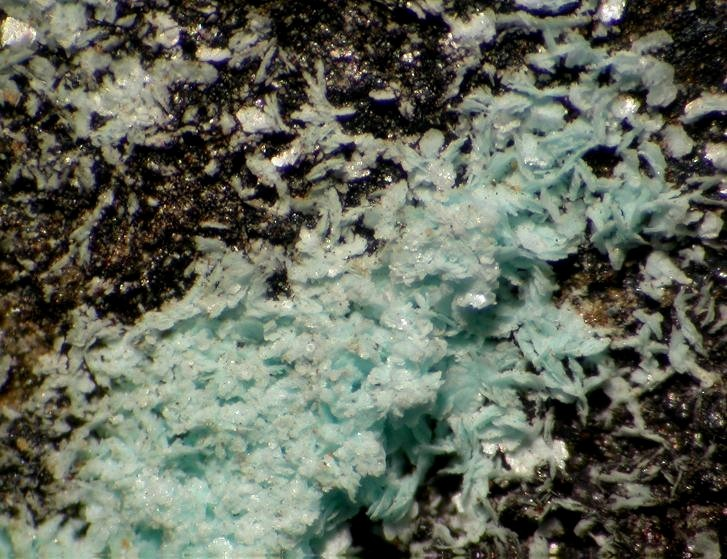 Schulenbergite Locality: Ramsbeck, Meschede, Sauerland, North Rhine-Westphalia, Germany Field of view 6 mm. Specimen and photo Leon Hupperichs.